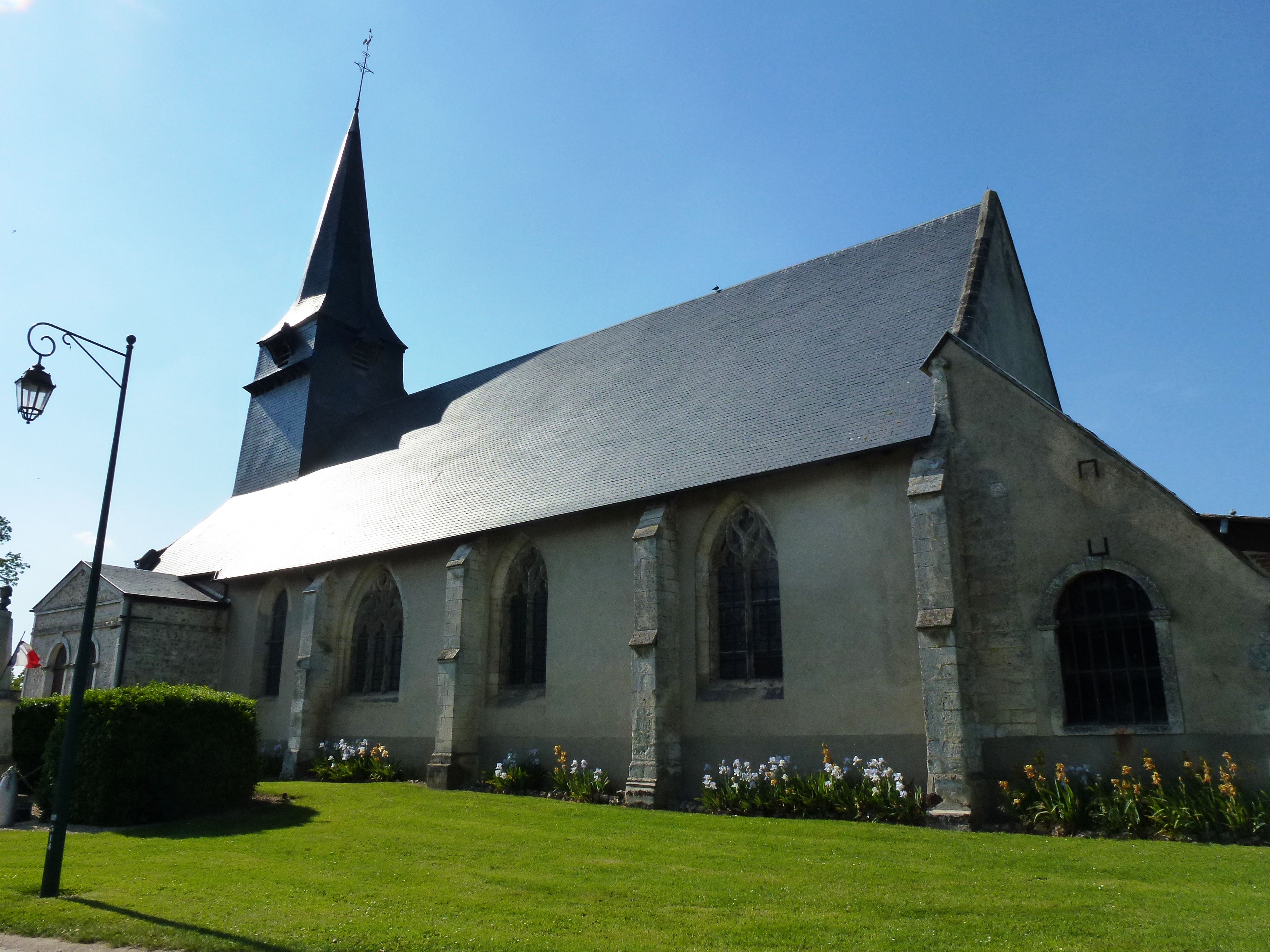 Émanville (Eure, Fr) église Saint-Etienne